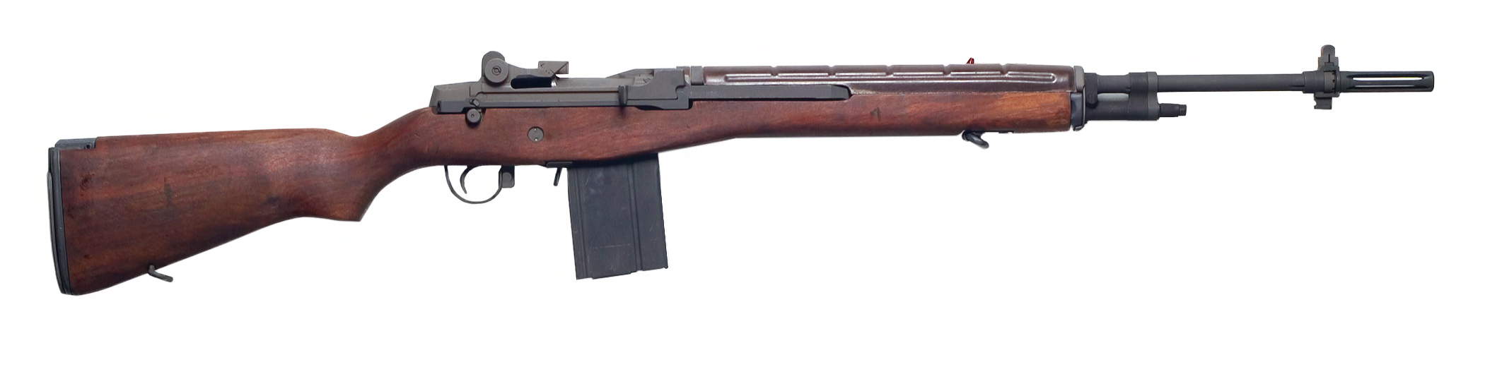 M14 Stand-off Munitions Disruptor (SMUD) Primary function: Anti-materiel. Length: 44.3 in. Weight: 9.1 lbs. Caliber: 7.62 mm NATO. Maximum effective range: 800 meters. Rate of fire (auto): 750 rounds per minute (approx.)